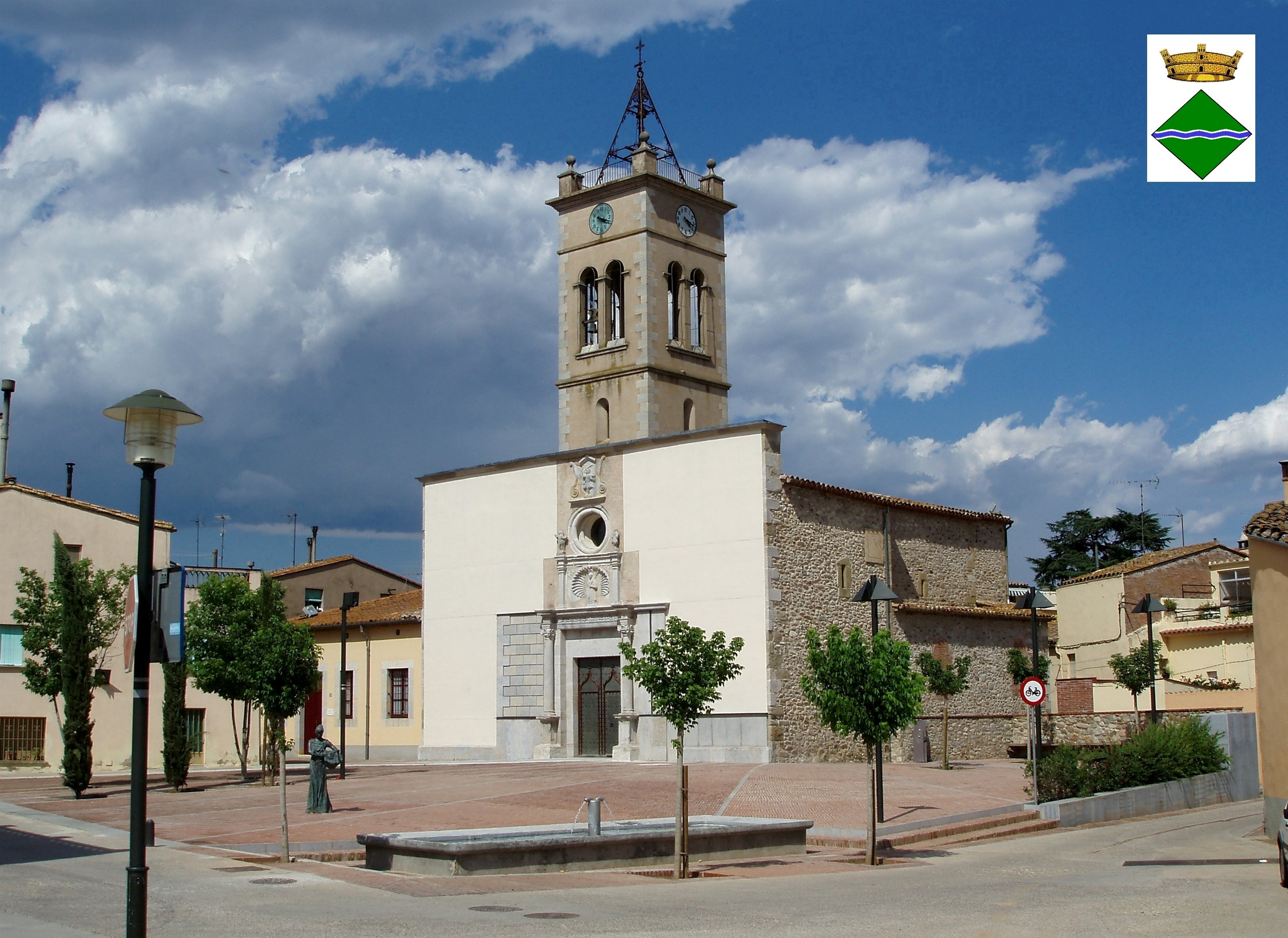 parish temple, Bescanó, Spain